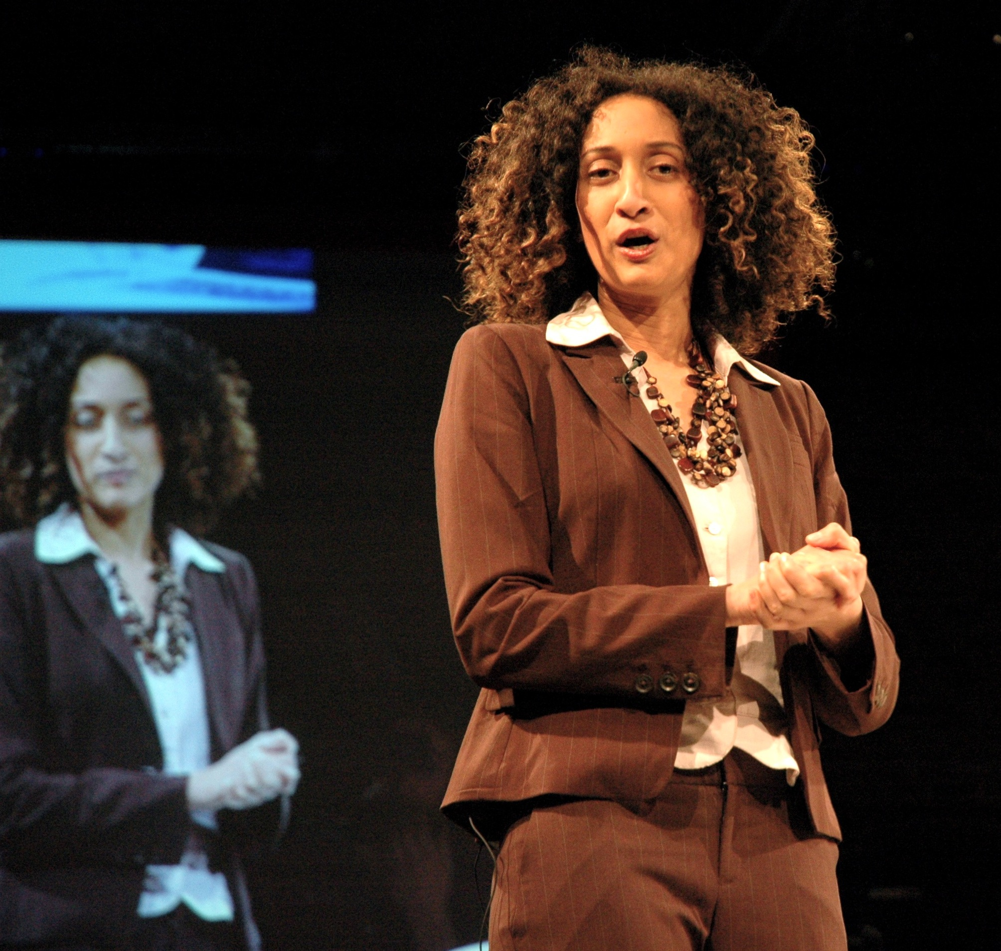 Katharine Birbalsingh, Learning Without Frontiers conference, London, 11 January 2011